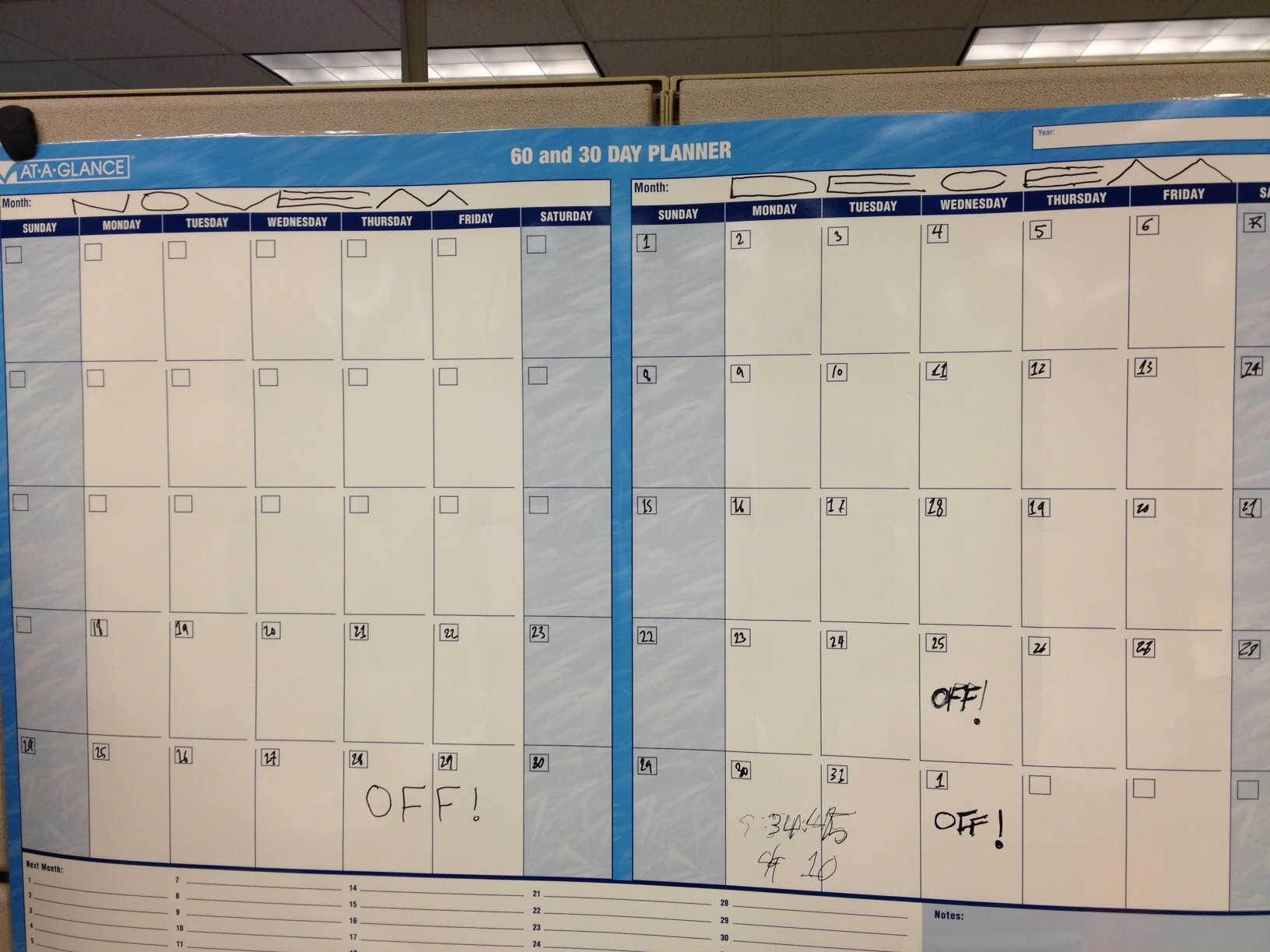 A calendar with only days off, no appointments